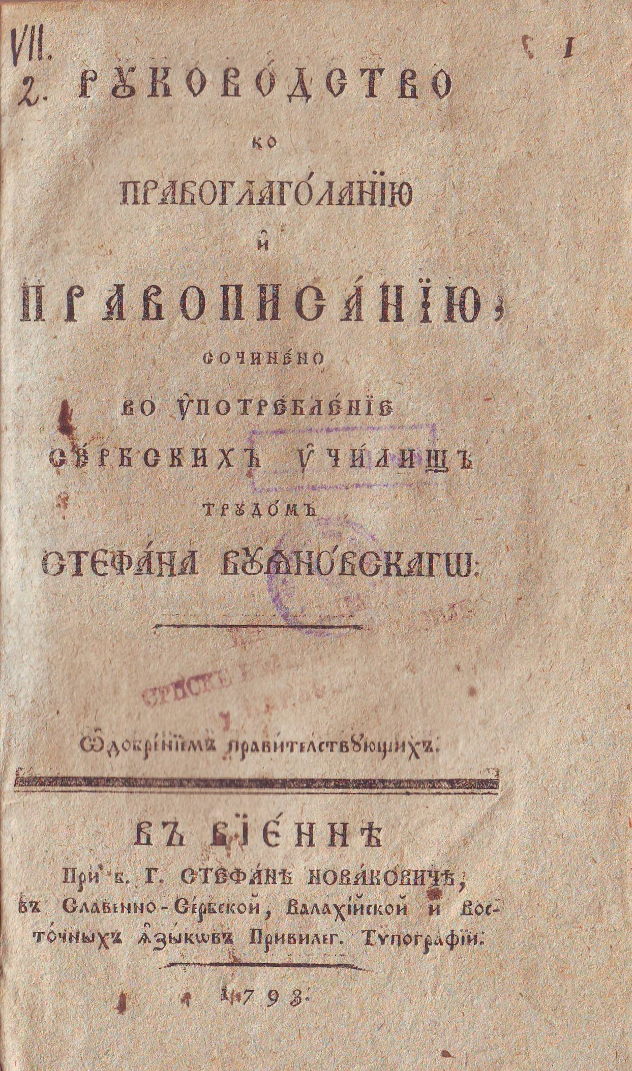 Cover of textbook Rukovodstvo k pravoglagolaniju i pravopisaniju (1793) by Stefan Vujanovski. Srpski (latinica): Naslovna strana udžbenika Rukovodstvo k pravoglagolaniju i pravopisaniju (1793) Stefana Vujanovskog.